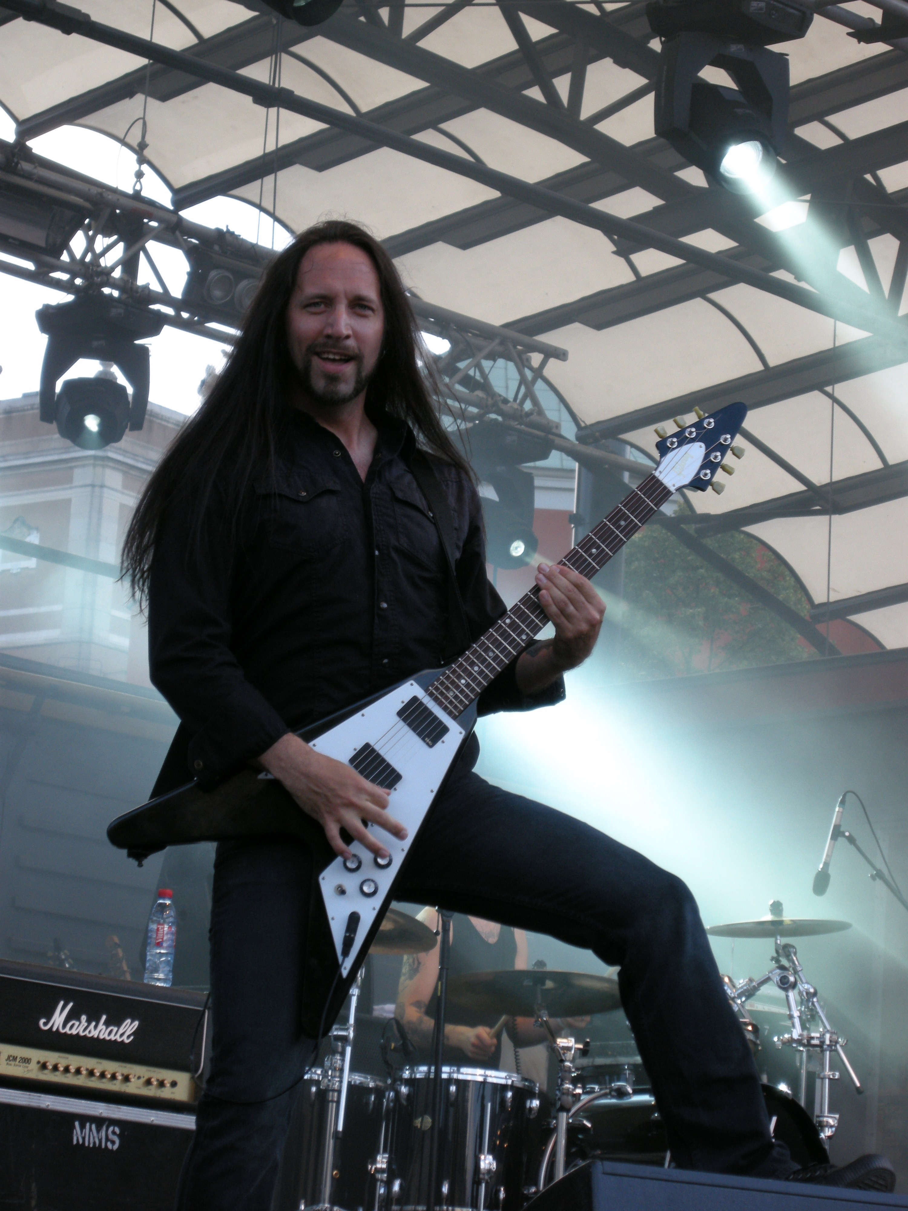 Niclas Engelin, guitar player of Swedish metal band Engel at Kungsträdgården, Stockholm, Sweden